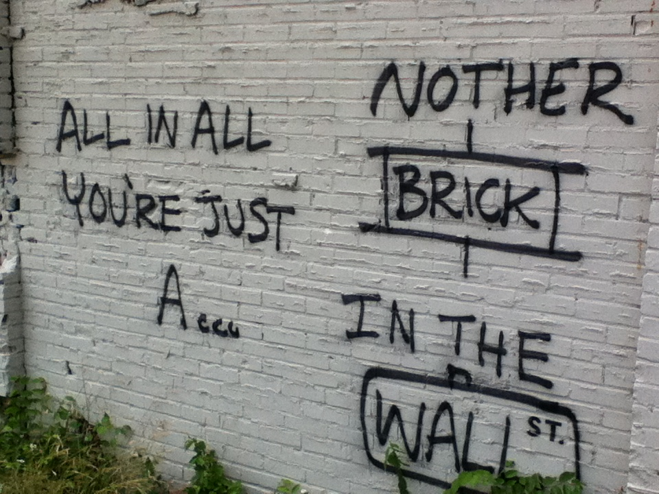 Graffiti found on the back of a business in Austin,TX.